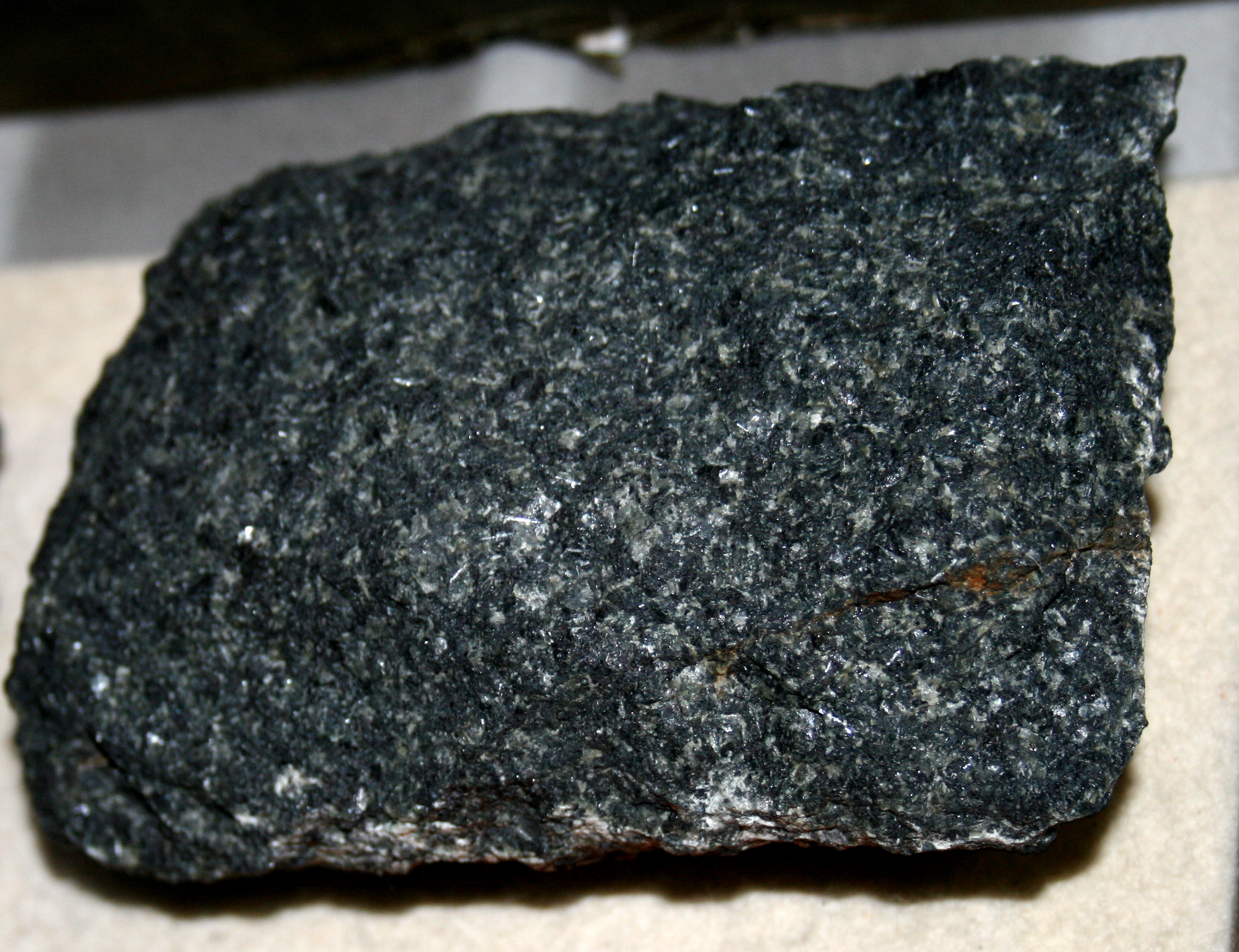 Rock olivinic diabase from collection of National Museum, Prague, Czech Republic